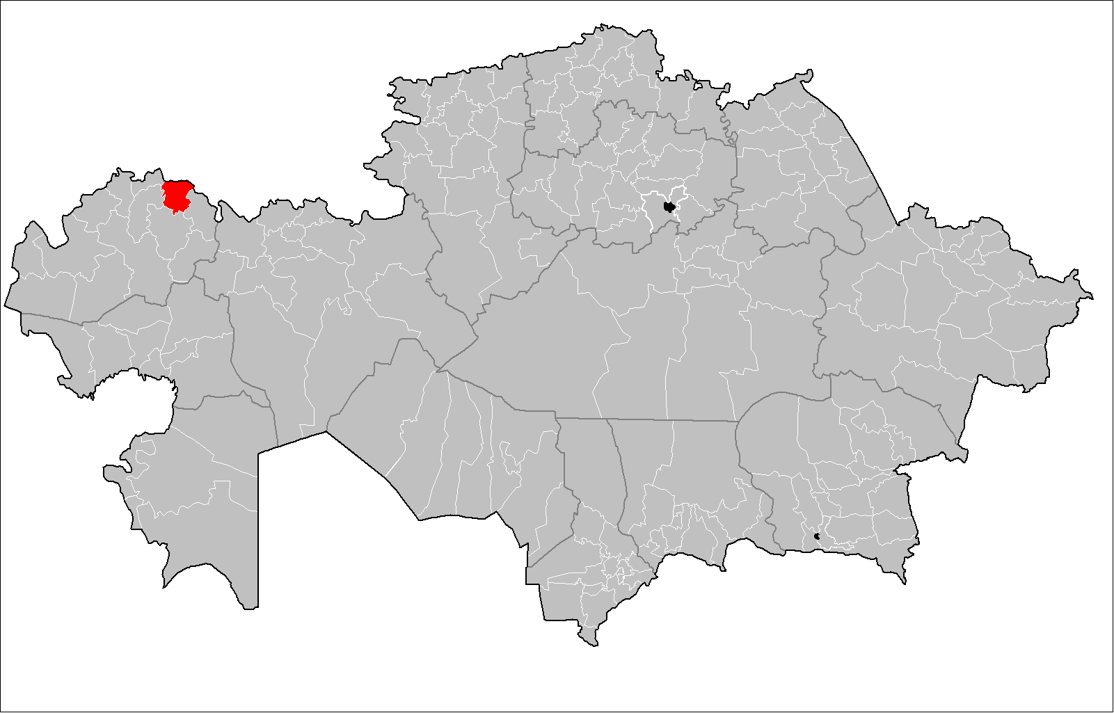 Map of Burlinsk District in Kazakhstan. for public domain use, using MapInfo Professional v8.5 and various mapping resources.